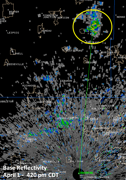 Radar image of wind turbine interference for weather radar. Yellow circle shows area of interest (yellow not part of radar image).